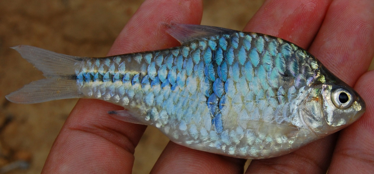 Puntius lateristriga (66mm SL). From Napuh River (2°22.898’S 103°48.907’E), Bayung Lencir, Musi Banyuasin, Province of South Sumatra, Indonesia